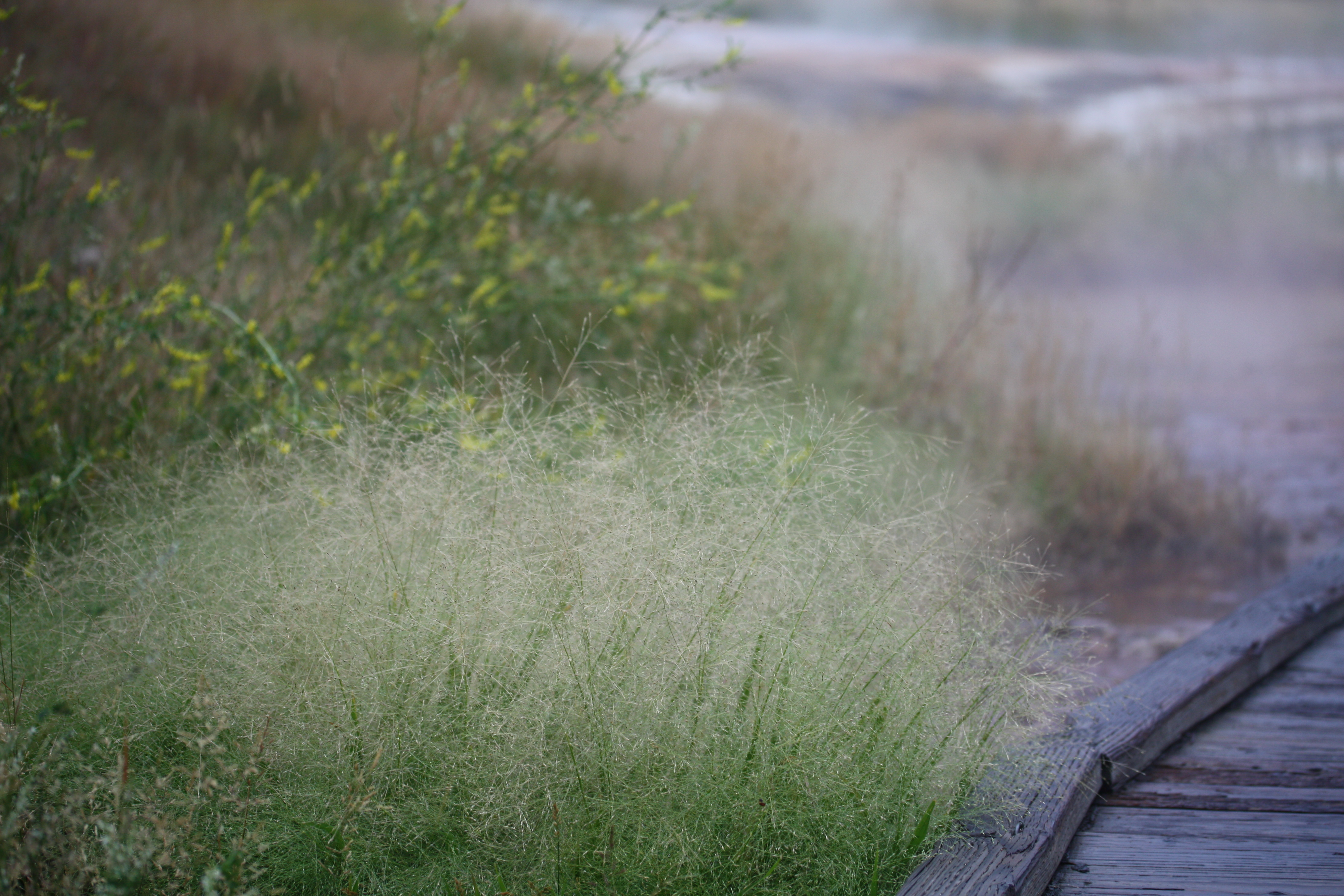 The open diffuse panicles typically bear dark purplish small spikelets (1.5-2 mm long) but here in late August the spikelets have assume a straw-coloration.